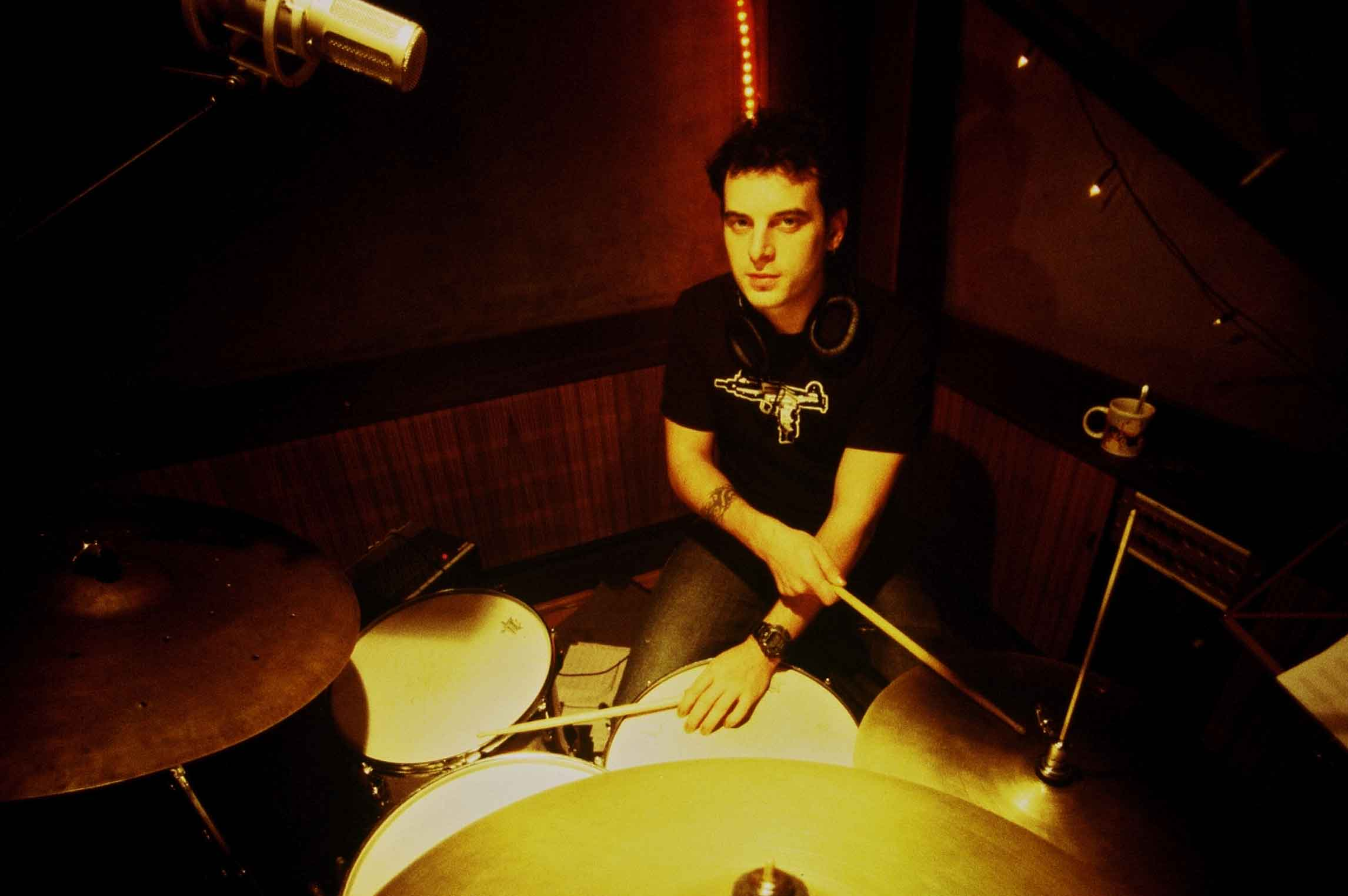 Jochen Rueckert in the studio 2005